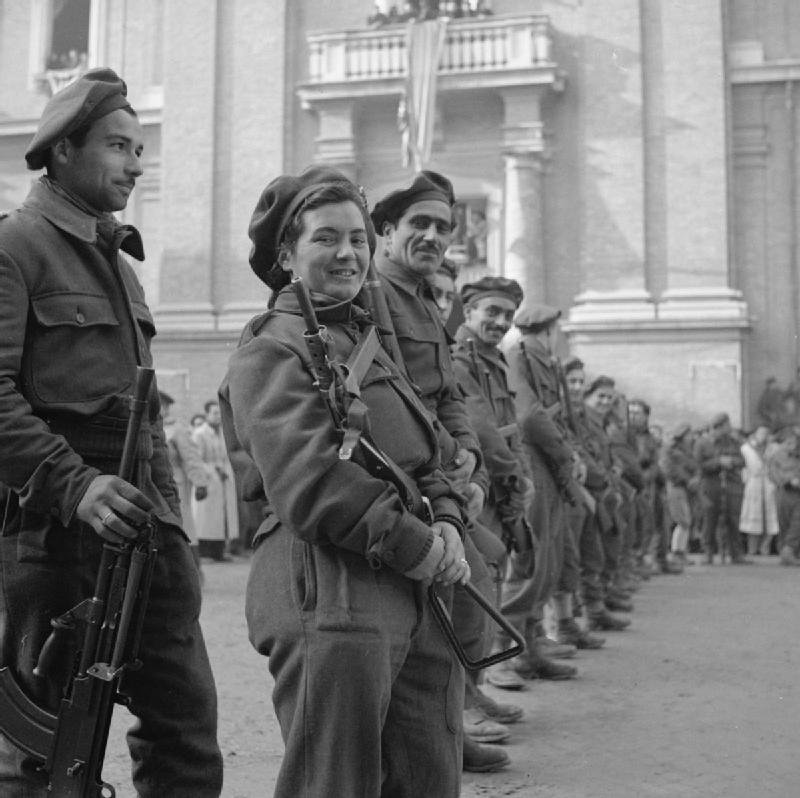 8th Army Front- Italian Partisan Leader Honoured In the Piazza Garibaldi, Ravenna, Lieutenant General Sir R L McCreery (8th Army Commander) presented the Medaglio D'Oro to Major Buloff for distinguished services while commanding Partisan forces. This image shows a number of women who had been in action against the enemy, amongst the Partisans on parade at the ceremony.